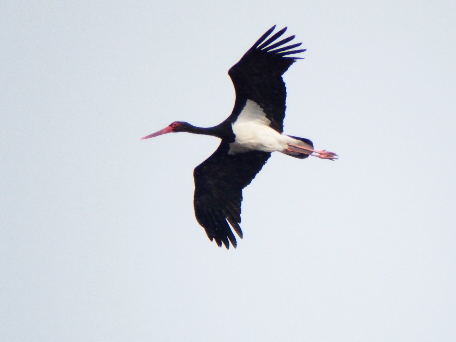 Nature park Záhlinické rybníky, Kroměříž District, Czech Republic.